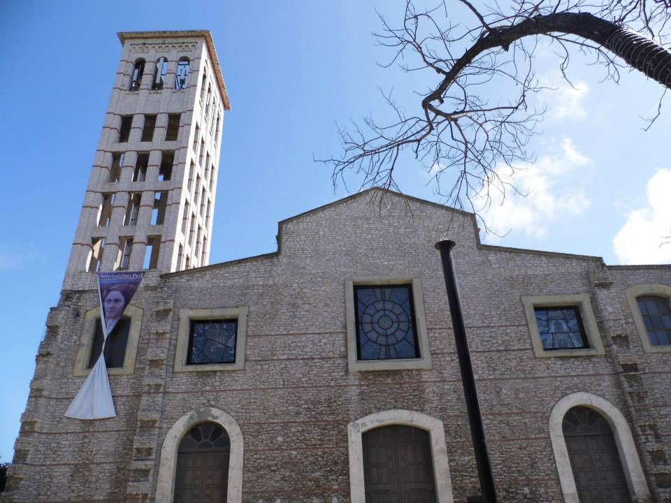 Hermosa Catedral de Piedra